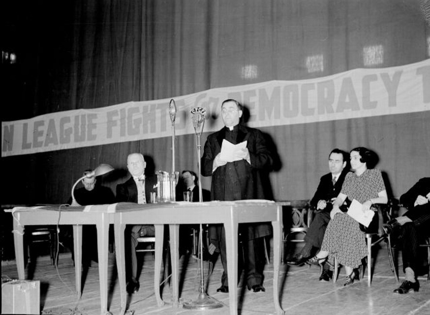 Reverend J. Ostermann of New York, executive director of the Committee for Catholic Refugees from Germany, stands at a microphone of radio station CFCF at an anti-Nazi rally of the German-Canadian League at the Montreal Forum in Montreal, Quebec, Canada.